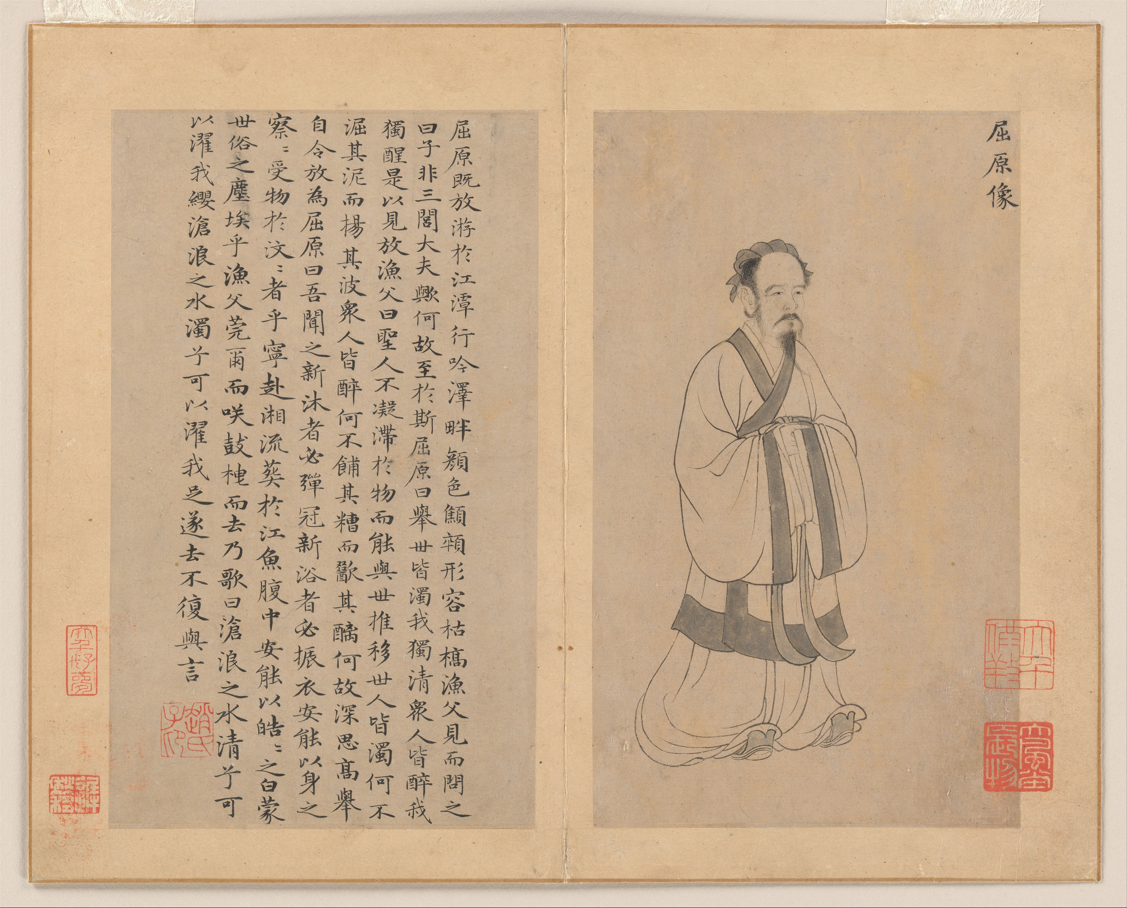 The Metropolitan Museum of Art states: The Nine Songs are lyrical, shamanistic incantations dedicated to nine classes of deities worshipped by the Chu people of south China during the first millennium B.C. The original text consists of eleven songs, ten of which are transcribed and illustrated here. The illustrations are preceded by a portrait of the poet Qu Yuan (343–277 B.C.), which is accompanied by an essay entitled "The Fisherman," recounting the poet's state of mind toward the end of his life. Zhao Mengfu's paintings for the Nine Songs in the baimiao, or "white-drawing" style, are based on compositions by Li Gonglin (ca. 1041–1106) and were a primary source for later fourteenth-century paintings of this theme by Zhang Wu (active 1333–65) and others. Because the calligraphy in the album does not compare with the best of Zhao Mengfu's writing, it is probable that these leaves represent close, reliable copies of Zhao's important work, executed during the fourteenth century. One leaf, "The Lord of Clouds," is a later replacement (no earlier than the seventeenth century).